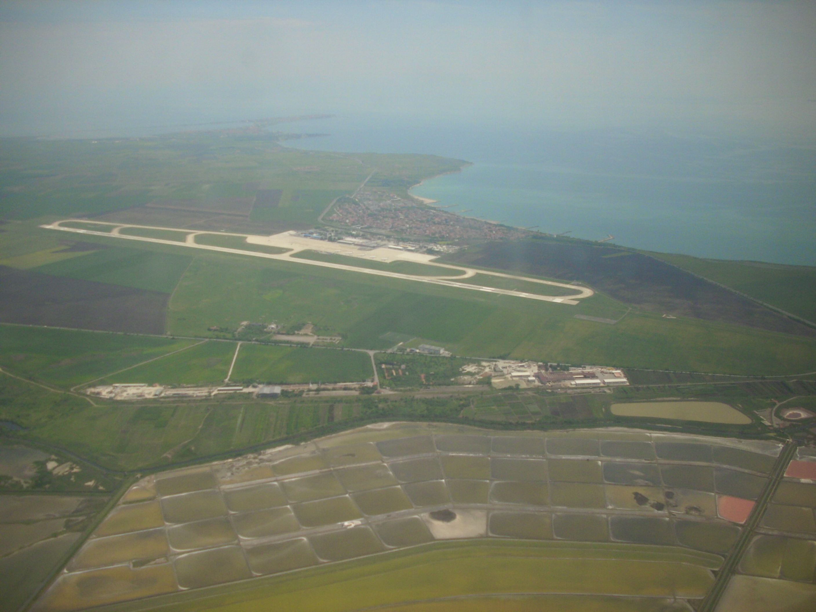 Burgas Airport seen from the sky shortly after take-off